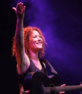 Yehudit Ravitz of performance in Caesarea, July 2008